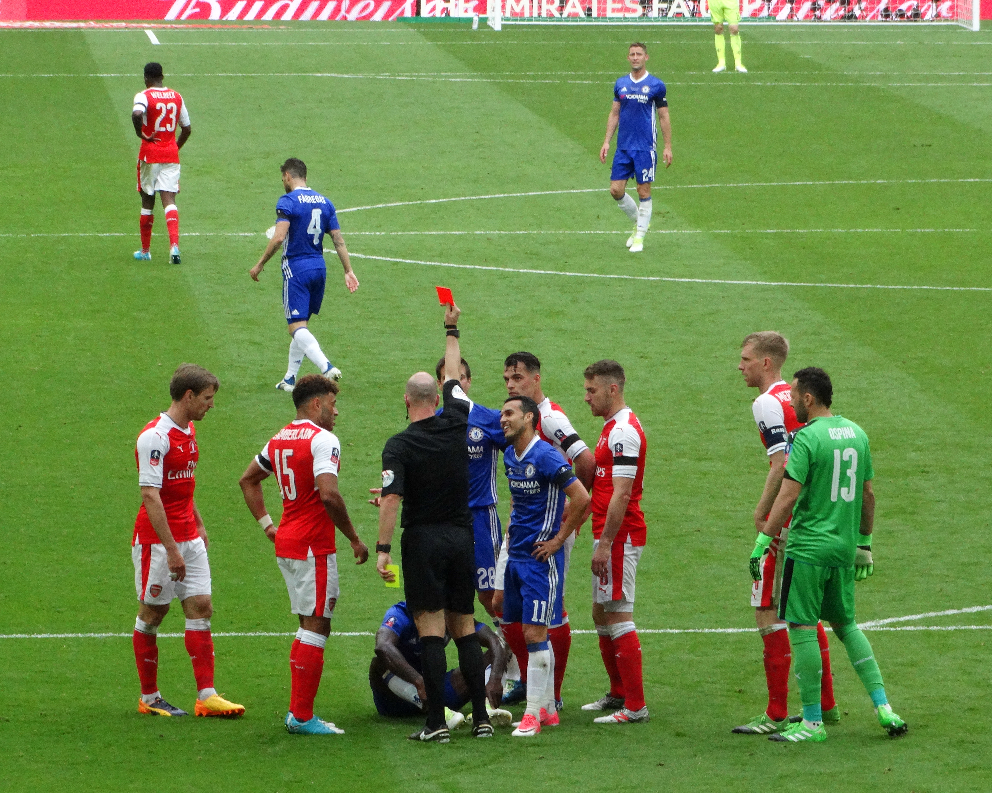 FA Cup Final 27.5.17